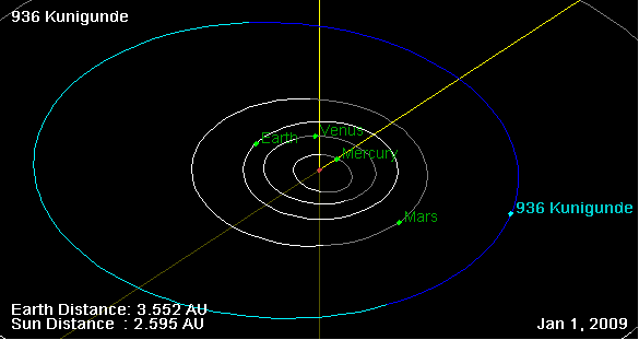 936 Kunigunde orbit, and his position on 01 Jan 2009 (NASA Orbit Viewer applet)